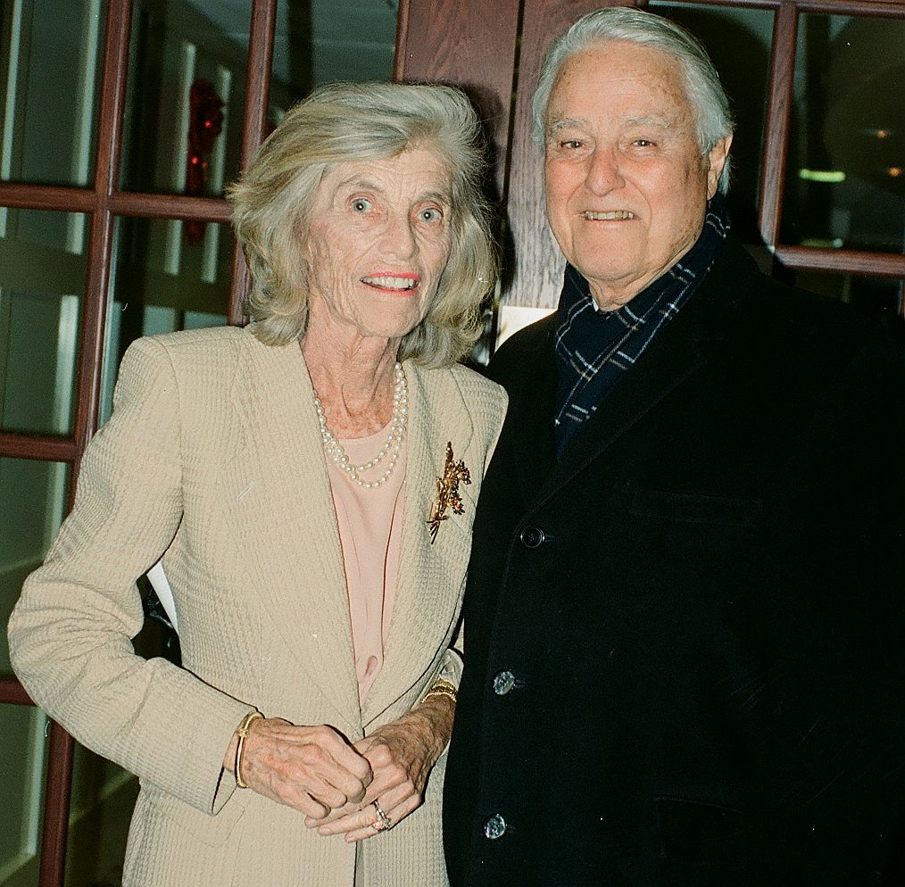 National press club members 1999 Wash. D.C.